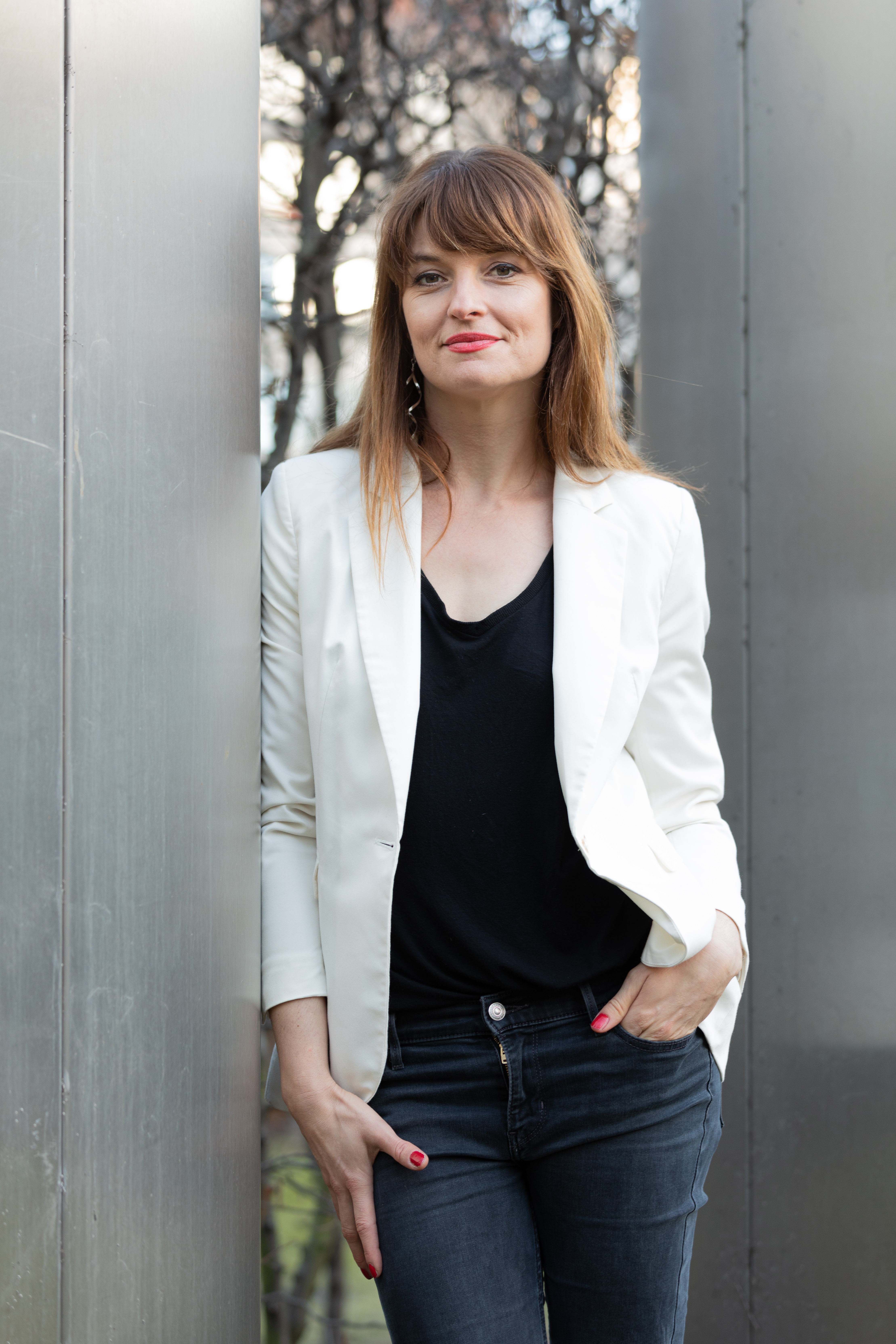 Ina Paule Klink at the Hessian reception during the Berlinale 2019